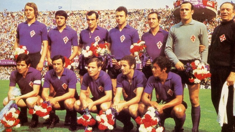 Florence, Communal Stadium, May 18, 1969. A line-up of A.C. Fiorentina took to the field in the home victory versus Varese F.C. (3-1), Matchday 30 of the Italian Championship 1968–69 Serie A; on that occasion the team was honoured for the victory of the Scudetto, the second in its history, which had mathematically arrived seven days earlier with the away tie in Turin versus Juventus F.C. (1-1).